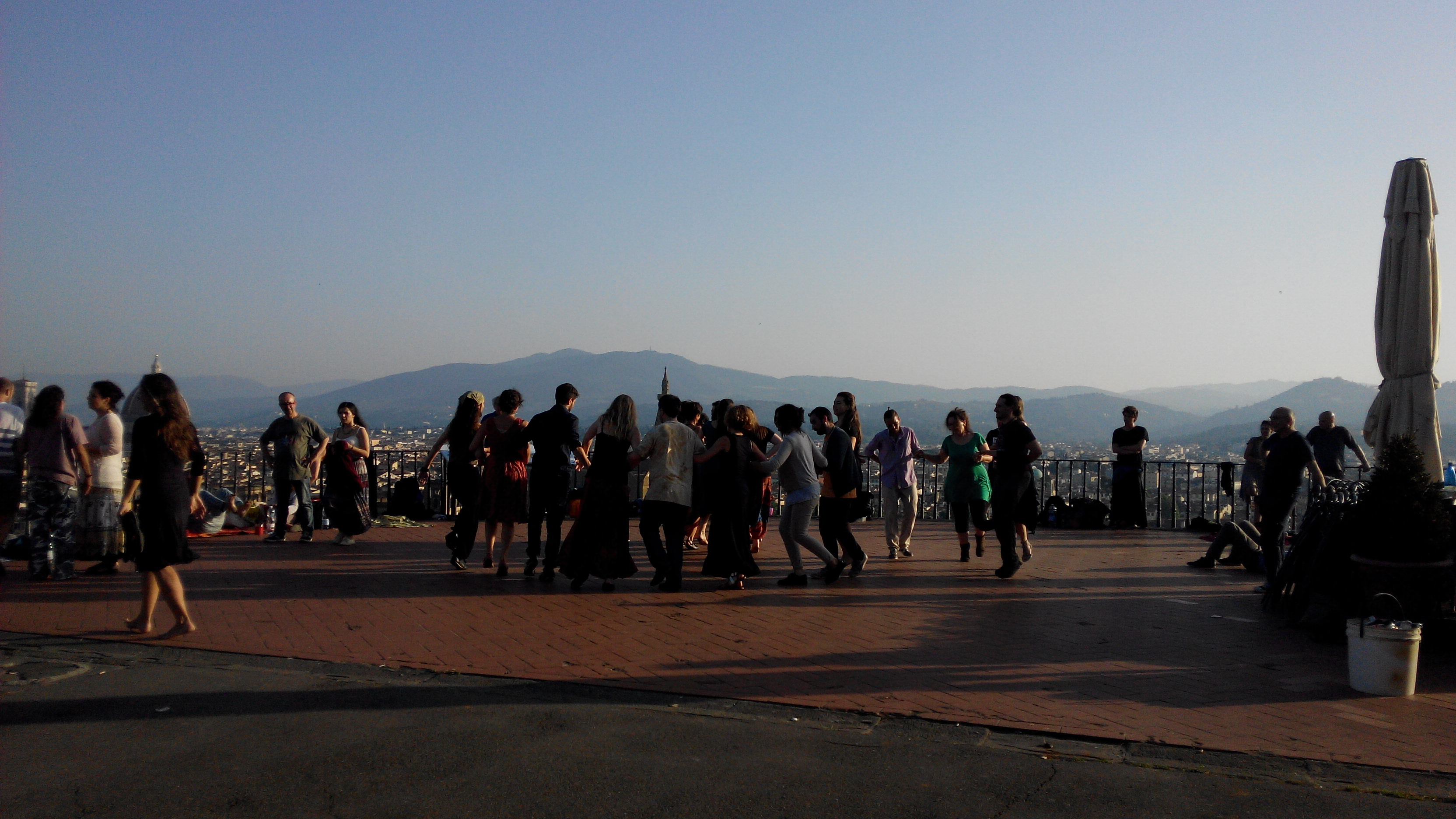 One of the chain dances early morning on Mazurka klandestina Firenze